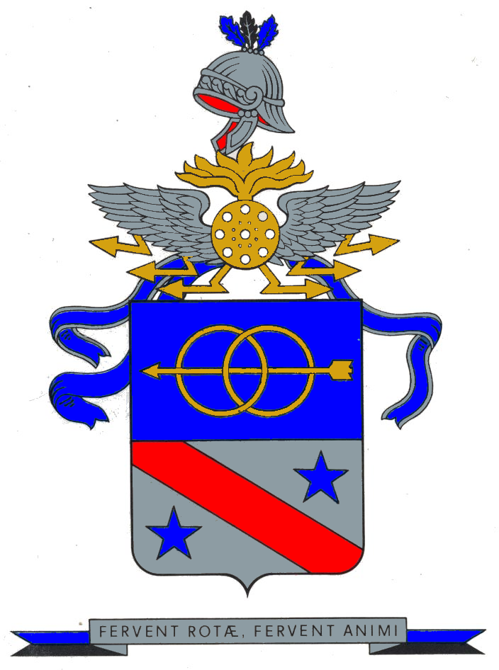 Coat of Arms of the Automobile Corps (year 1974); Italian Army.